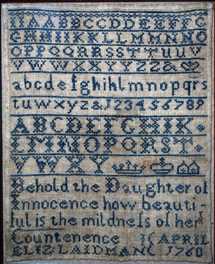 A mid-eighteenth century English sampler in monochrome, with the alphabet in uppercase (twice) and lowercase (omitting "J", which was then not yet considered a separate letter), some crowns, and the text: Behold the Daughter of / Innocence how beauti-/ful is the mildness of her / Countenence. ELIZ. LAIDMAN / APRIL 1760, where the word-internal "s" is written as "ſ". "U" and "V" are included as separate letters in some of the alphabets, merged in others. The text is apparently from The Whole Duty of a Woman; or, A Guide to the Female Sex, from the Age of Sixteen to Sixty, &c., first published in 1753, where the author was simply listed as “A Lady.” In fact, the author was William Kenrick (1725?-1779), English novelist, playwright, and founder of the book review digest The London Review. Kenrick was described by Paul Fussell in PMLA (June 1951) as “one of London’s most despised, drunken, and morally degenerate hack writers in the later eighteenth century.”